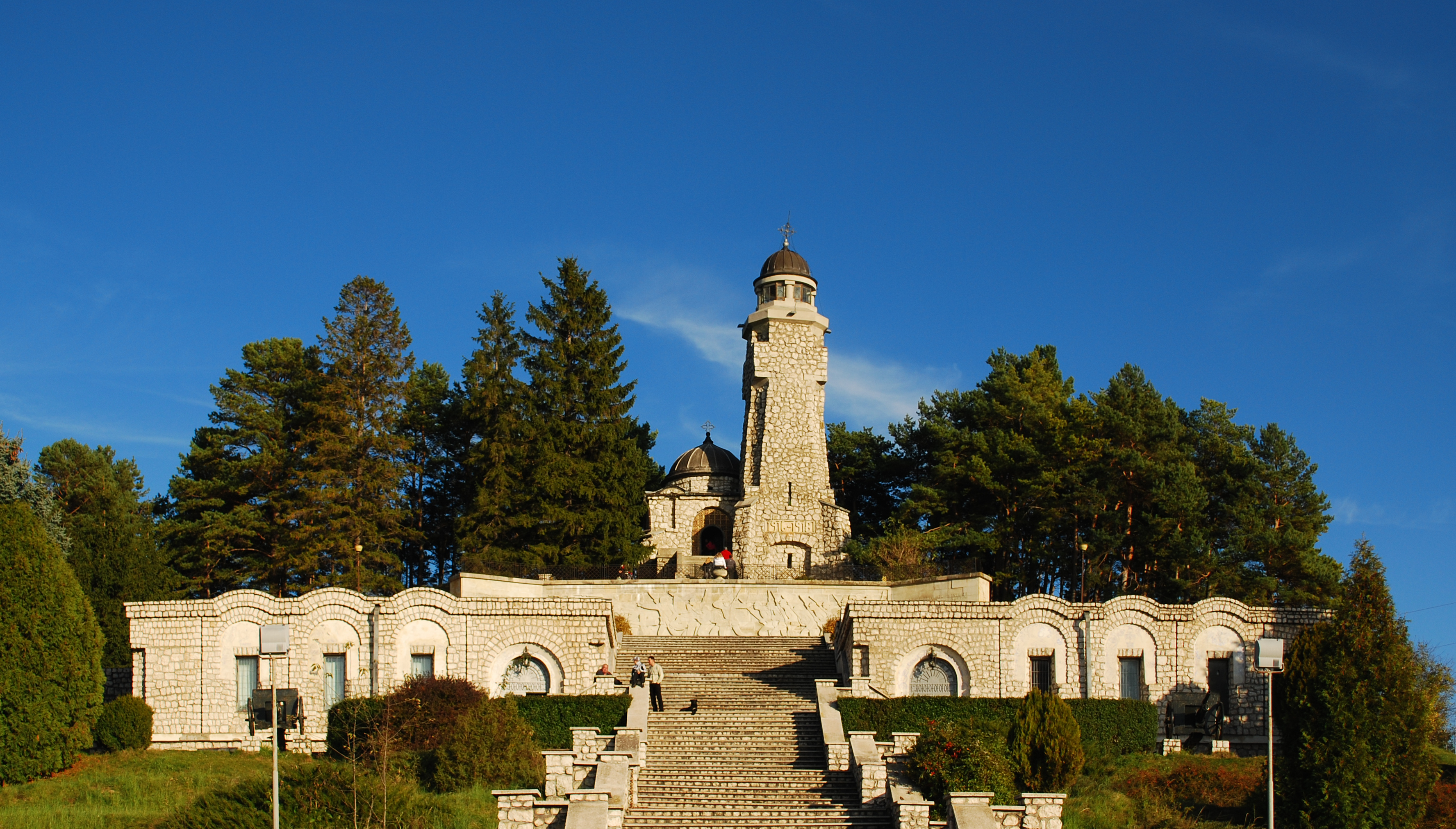 The Mateiaş mausoleum, near Câmpulung, Argeş County, Romania